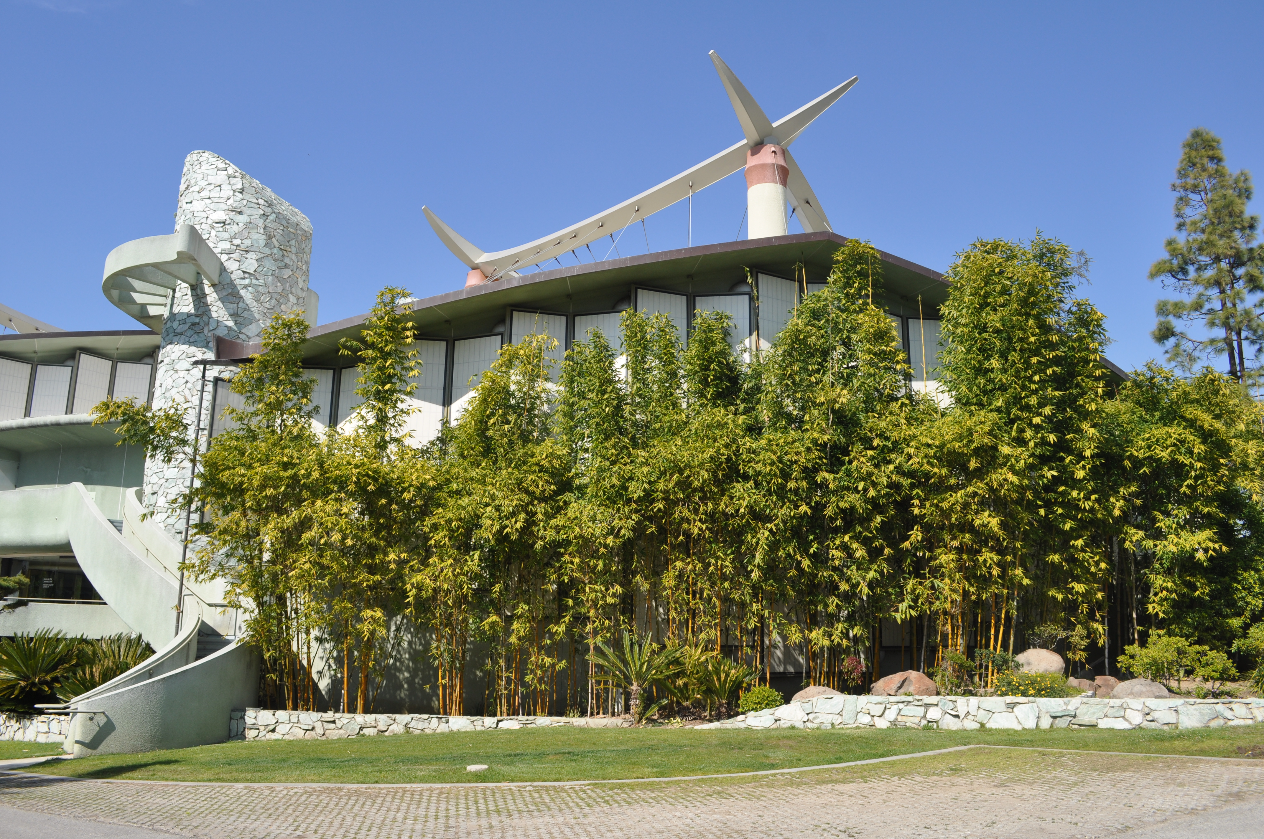 Exterior of the Pavilion for Japanese Art — at the Los Angeles County Museum of Art (LACMA), Los Angeles, California. Designed by architect Bruce Goff ca. 1978, construction completed in 1988.